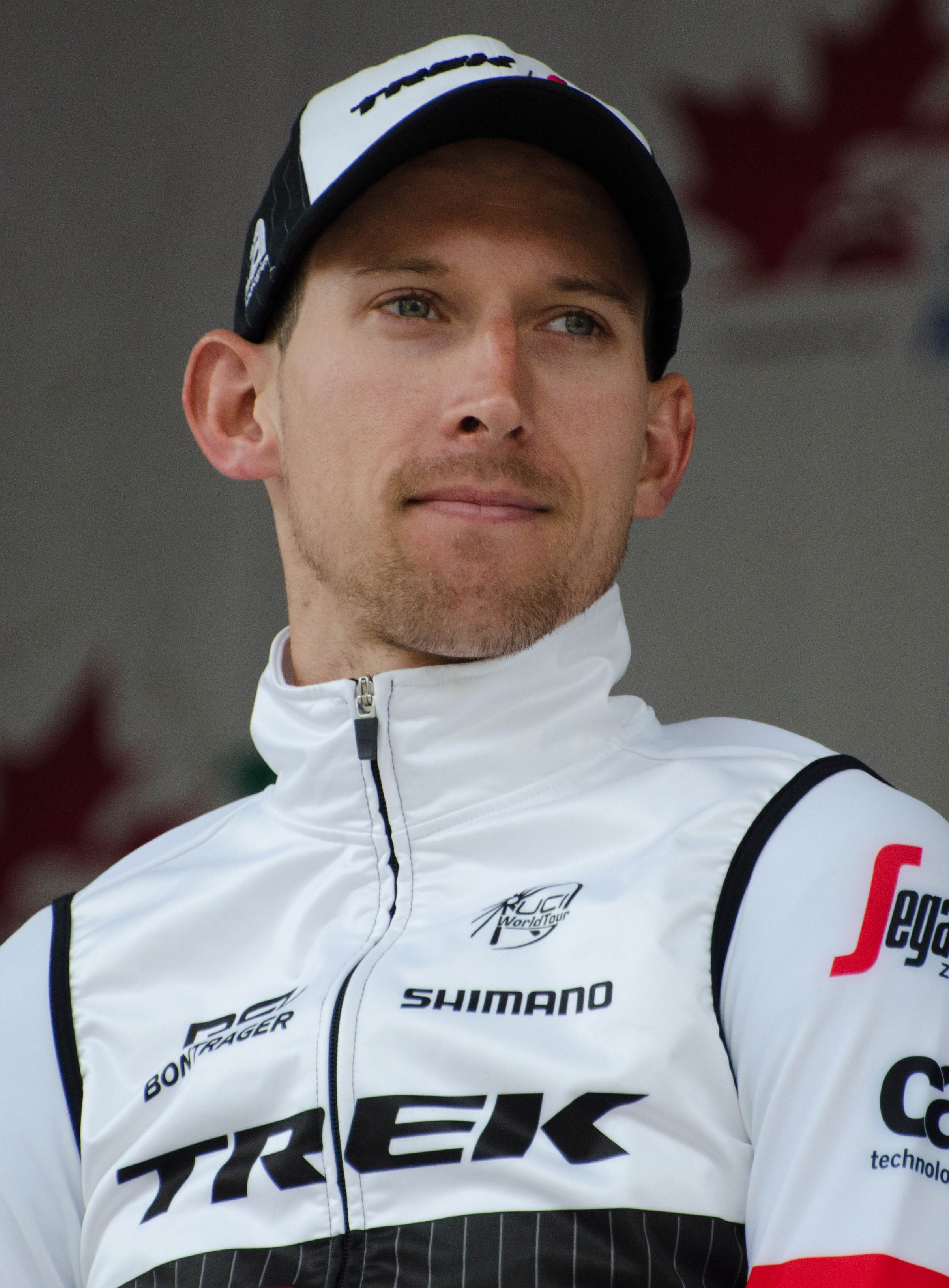 Bauke Mollema at the 2016 Tour of Alberta Please credit Connor Mah if used elsewhere.